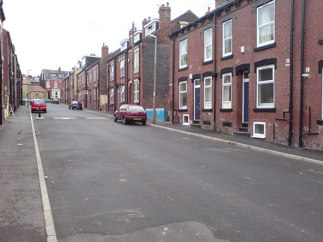 Back-to-back houses in Autumn Place, Burley Lodge, Leeds,West Yorkshire, England